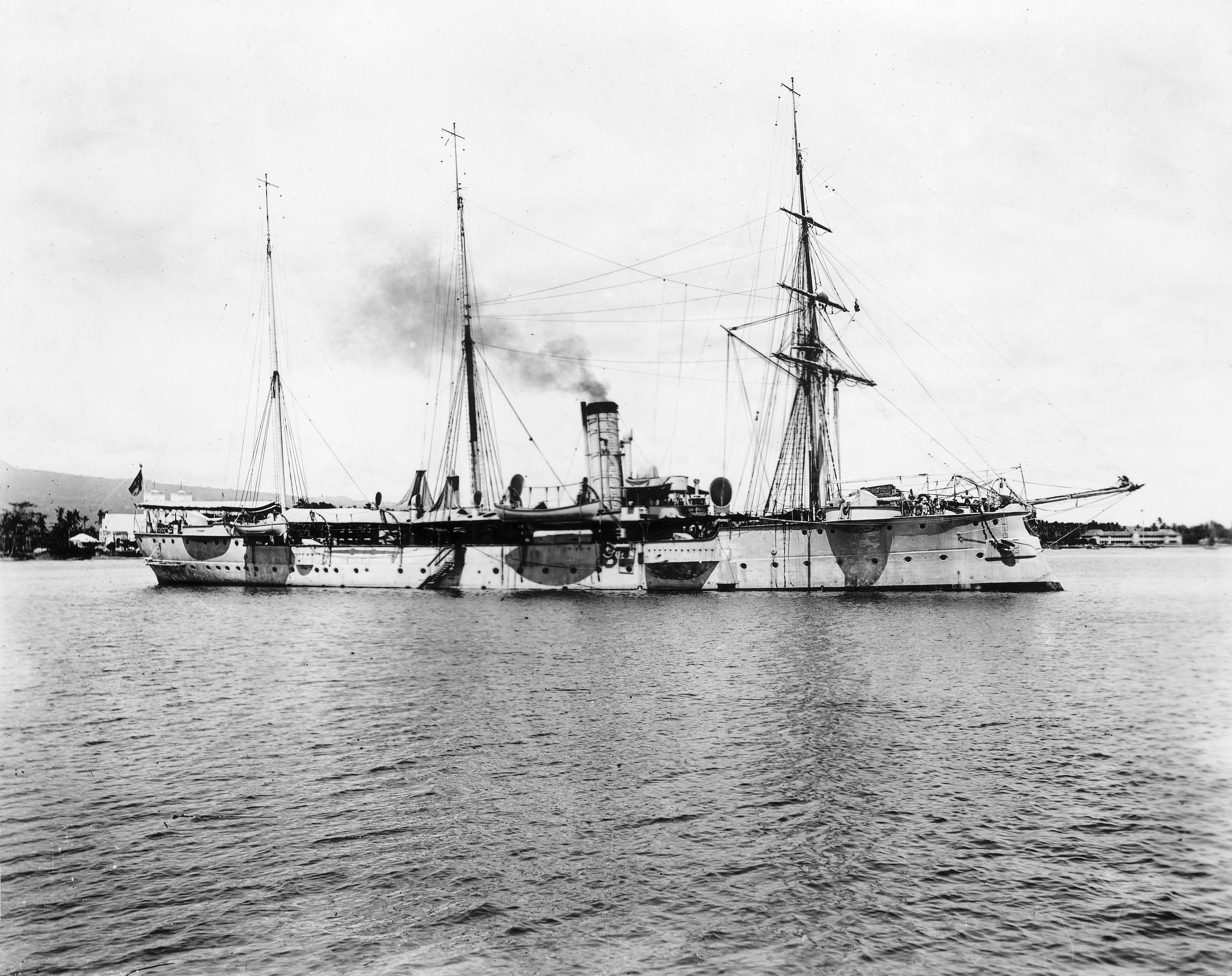 German warship Talke (Falke) in Apia Harbour, Samoa. Gagana Samoa: Va'a taua a Siamani i Apia, tusa o tausaga 1900s.